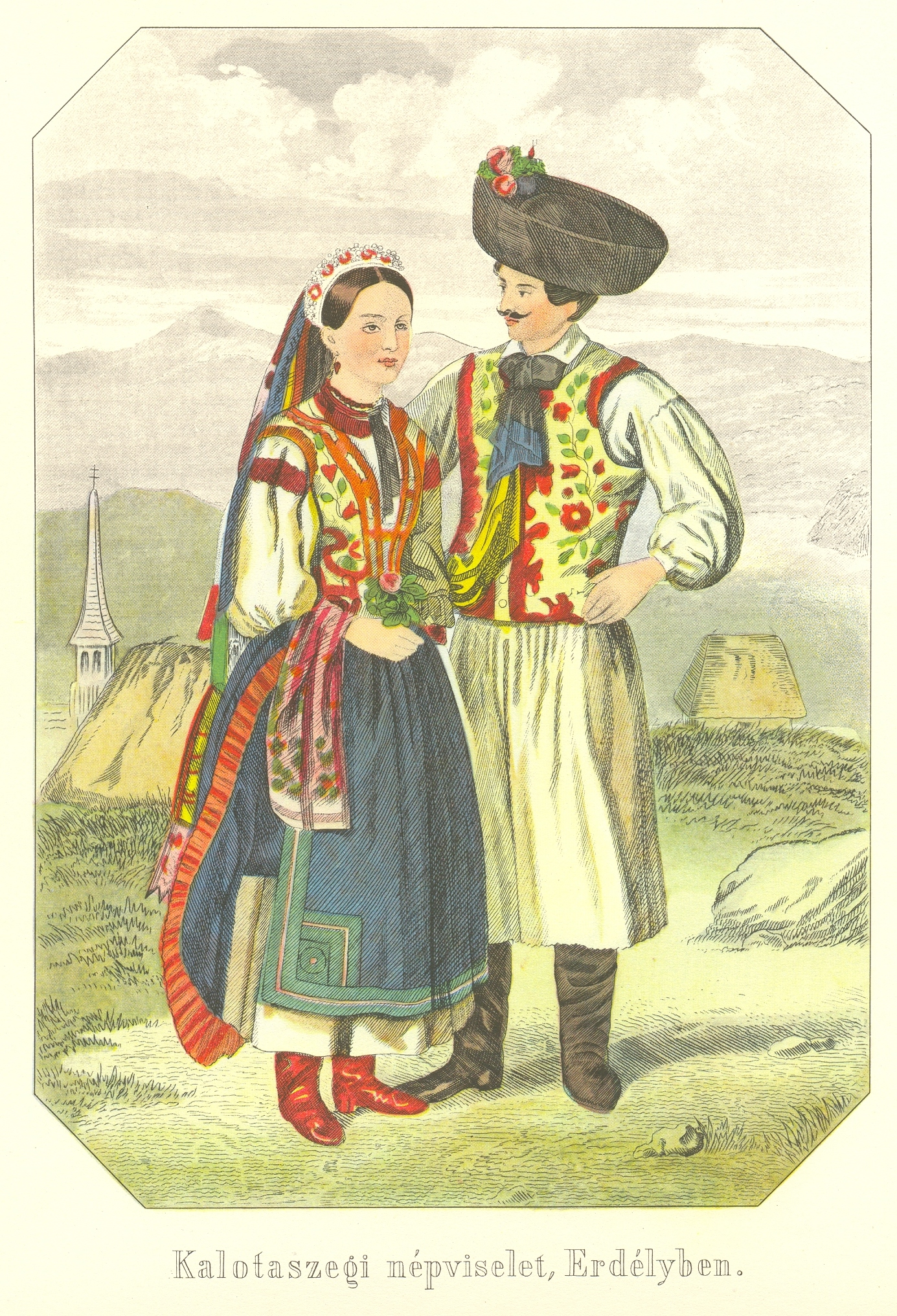 People of Kalotaszeg in traditional clothing; Transylvania